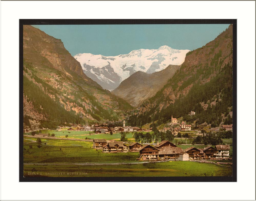 Mt. Rosa Gressony (i.e. Gressoney) Italy